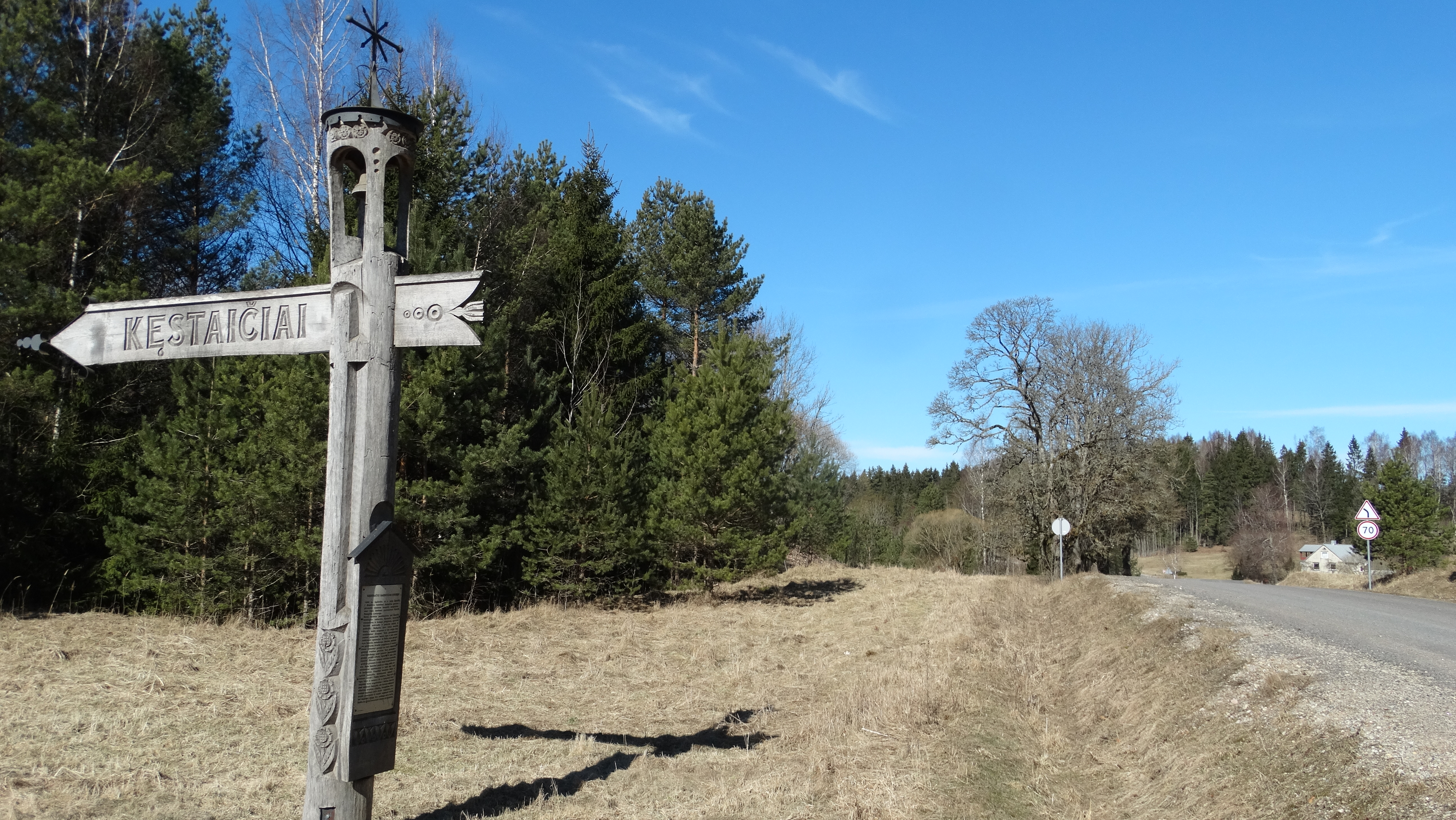 Kęstaičiai, Telšiai District, Lithuania